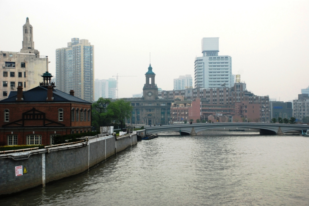 A view up Suzhou Creek from Garden Bridge, with the General Post Office of Shanghai at centre. cf File:SuzhouCreekOld2.jpg. Photo taken by Sumple on 10/04/2011. As a courtesy, and entirely voluntarily, please notify me if you change this image or its description.